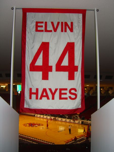 Photo by Nick Juhasz.